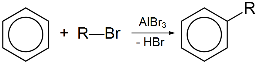 Friedel-Crafts alkylation with aluminium bromide